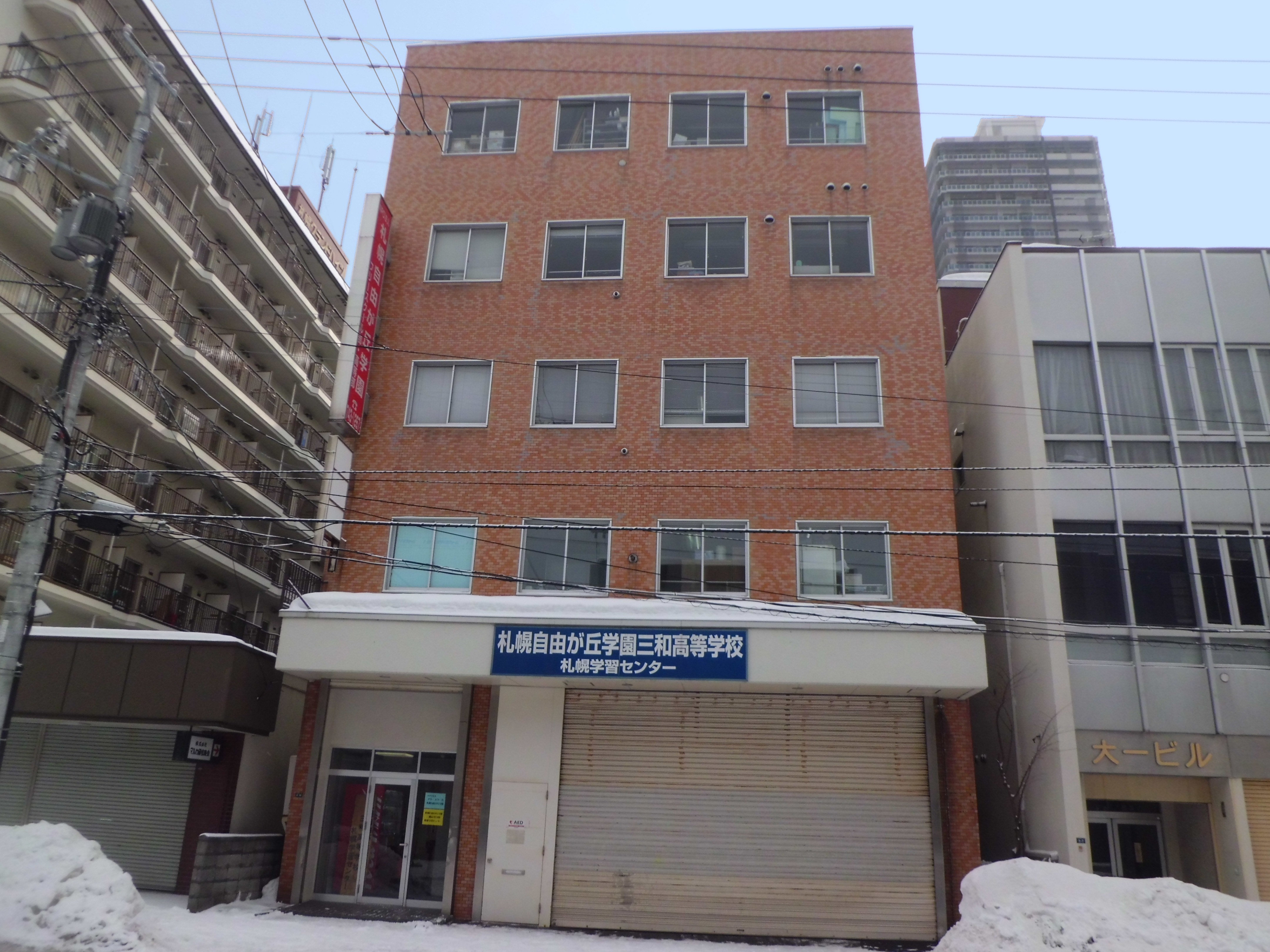 Sapporo Jiyugaoka Gakuen Sanwa High School; Sapporo Study Center.